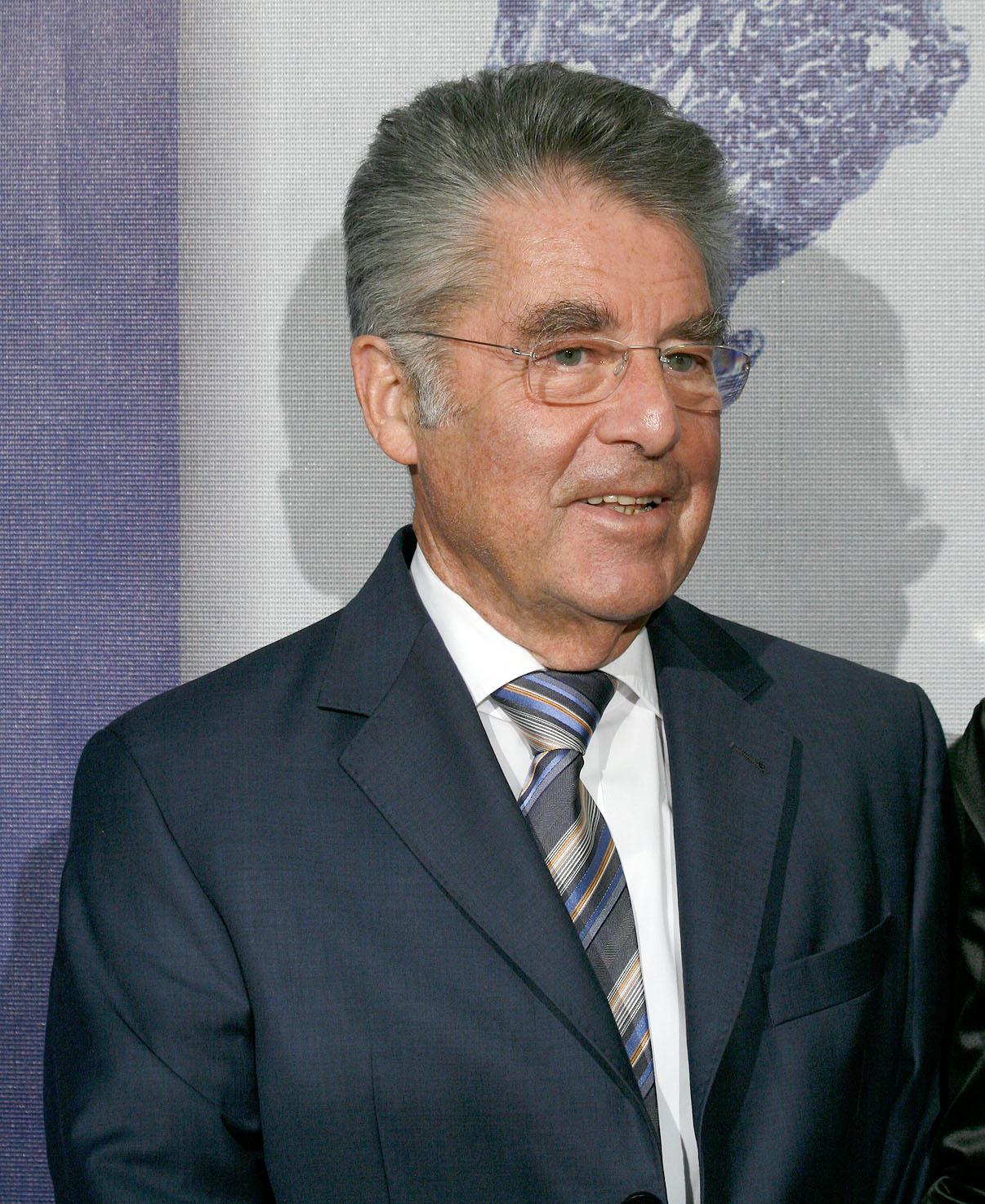 Heinz Fischer at the award show for the Austrian Sportspersonalities of the year 2009.